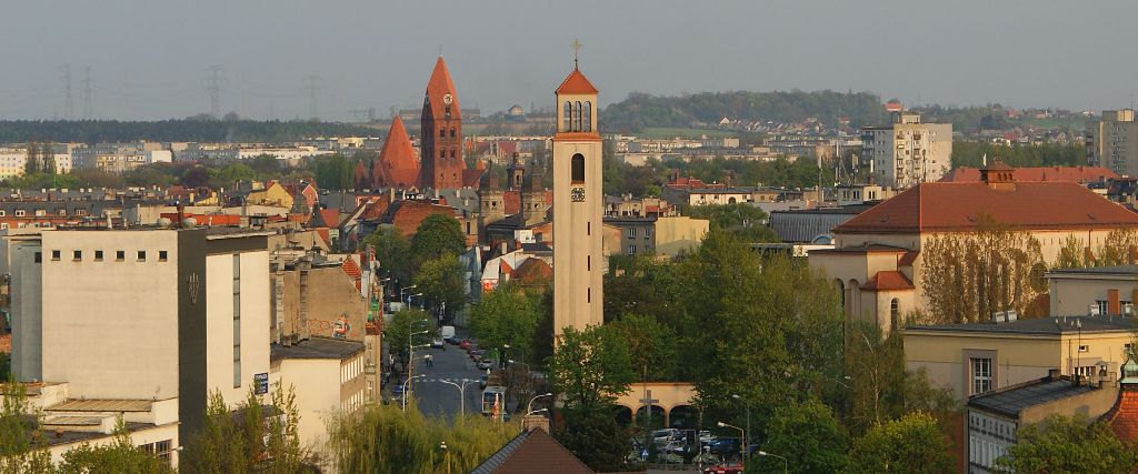 Ostrow wielkopolski panorama